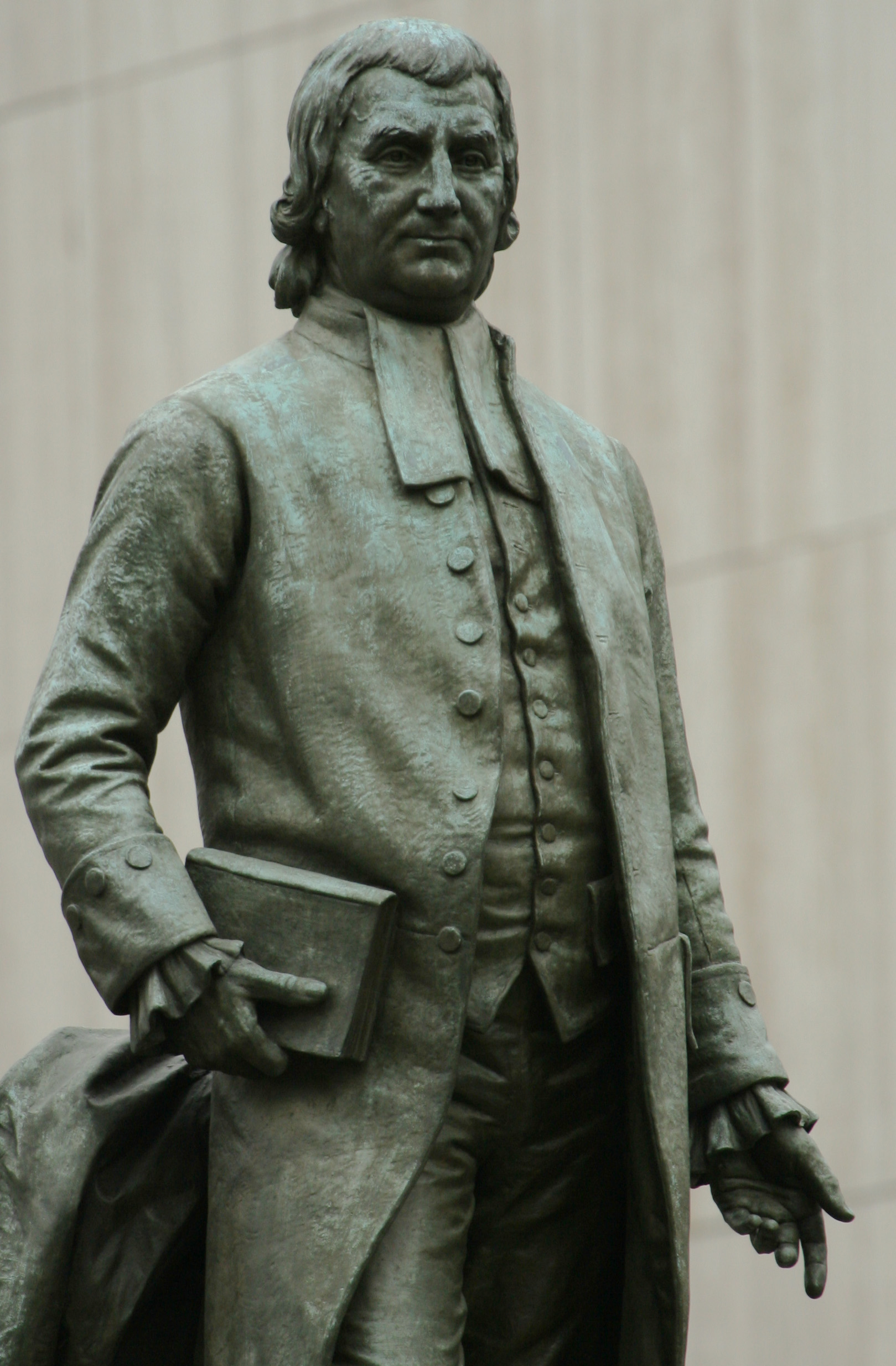 Statue of John Witherspoon on Connecticut Avenue in Washington, D.C. Dr. John Witherspoon (February 5, 1723 – November 15, 1794), was a signer of the United States Declaration of Independence as a representative of New Jersey. He was the only clergyman to sign the Declaration.